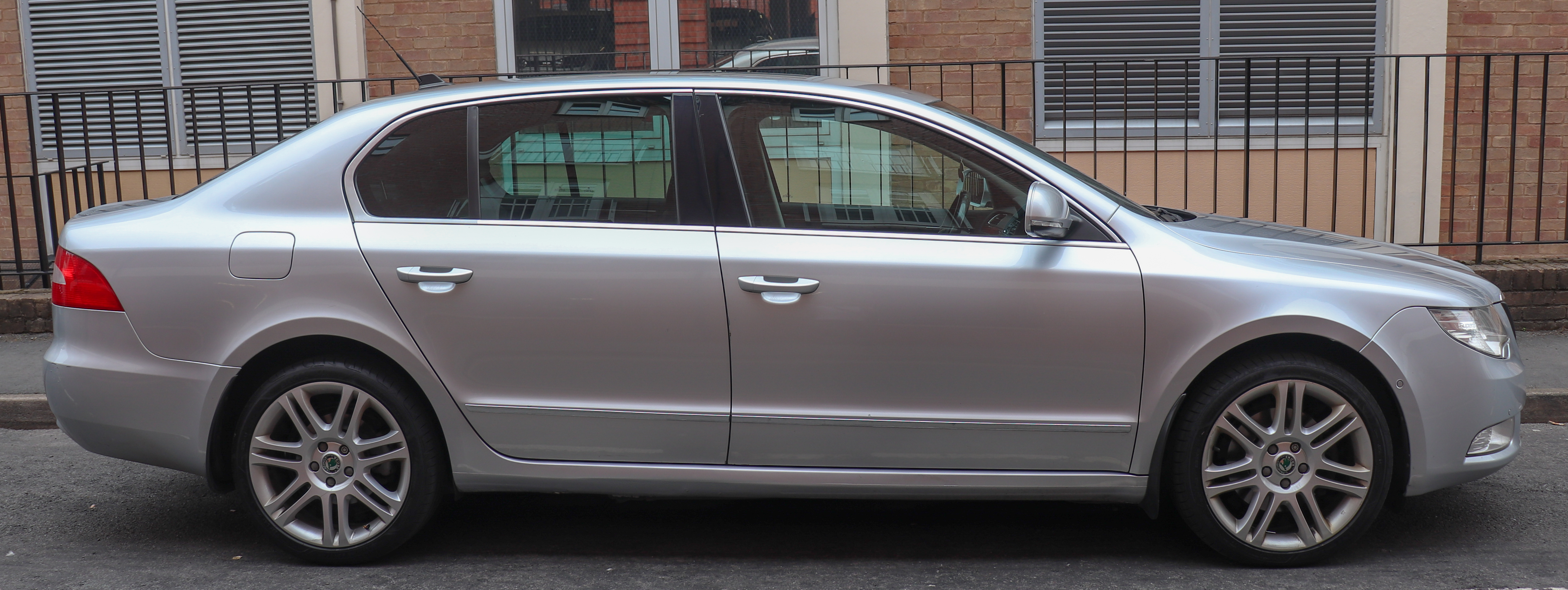 2009 Skoda Superb Elegance CRTDi Automatic 2.0 Side Taken in Leamington Spa